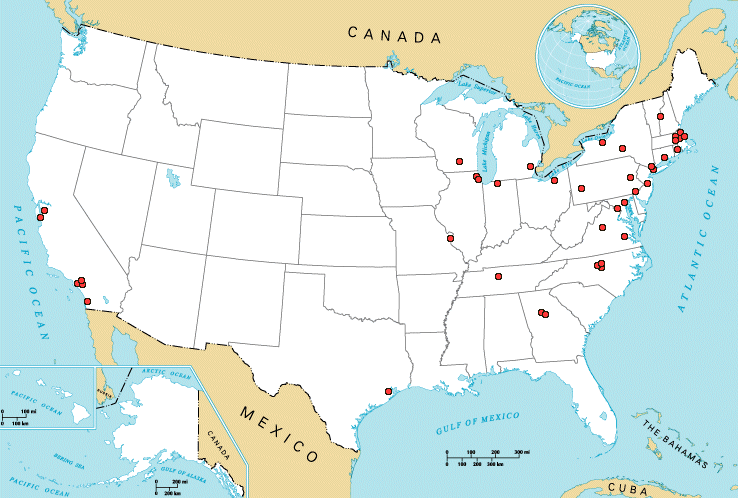 Top "National Universities" according to US News & World Report, 2008.